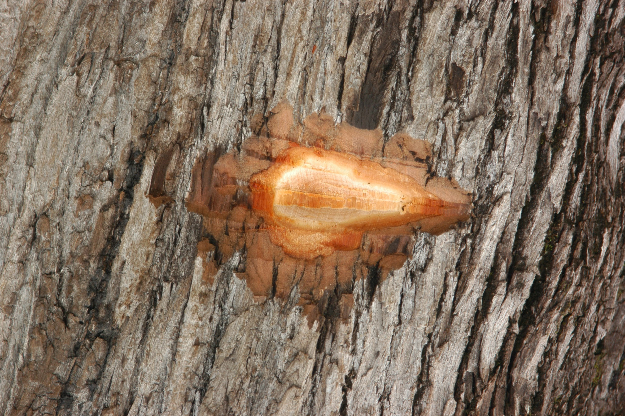 Bark slash of Humiria balsamifera (Humiriaceae). Ajuruteua peninsula, Bragança, Pará, Brazil